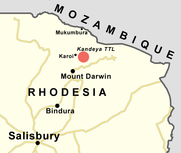 Rough location of Kandeya Tribal Trust Lands in north-eastern Rhodesia (today Zimbabwe), originally created to illustrate where John Alan Coey died.